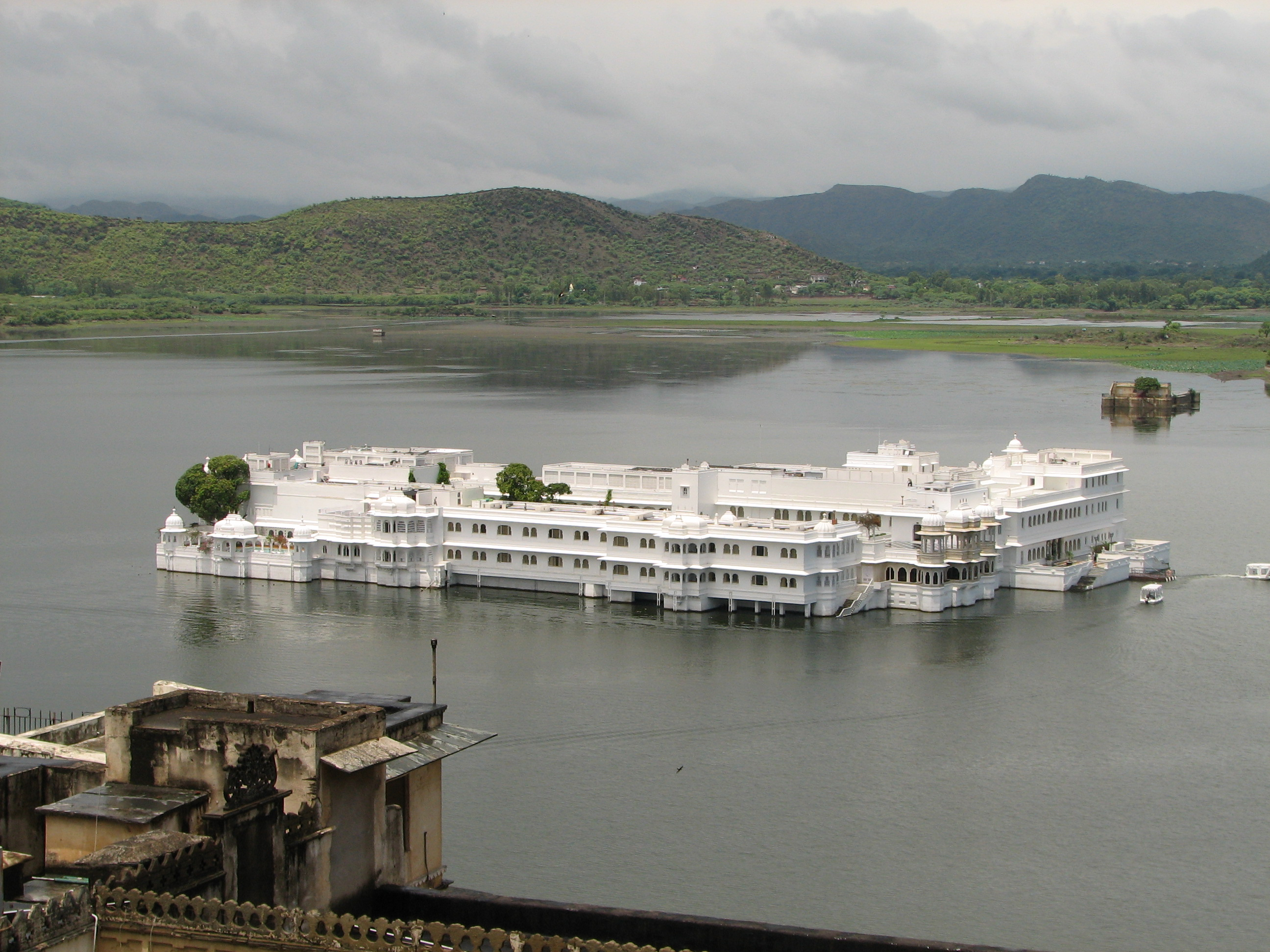 The Maharana's summer palace, called Jag Niwas was apparently built for him to spend special alone time away his favoured concubines.